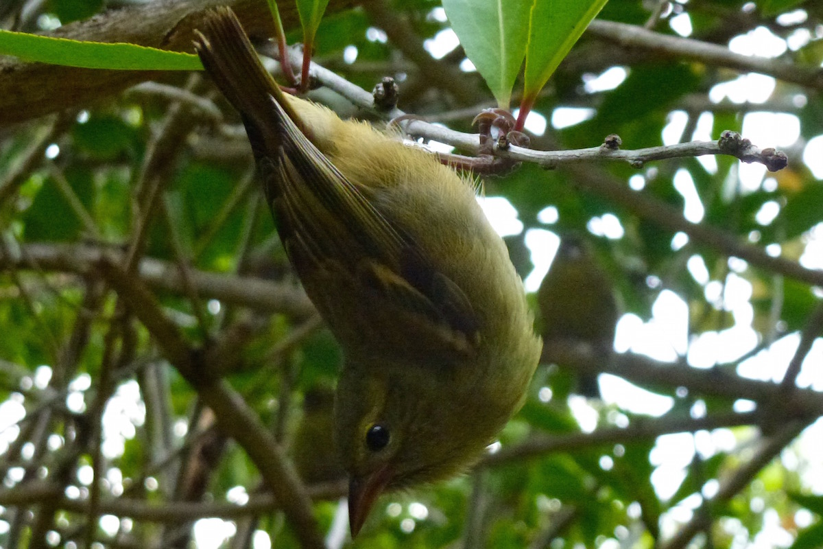 Female Mauritian Fody